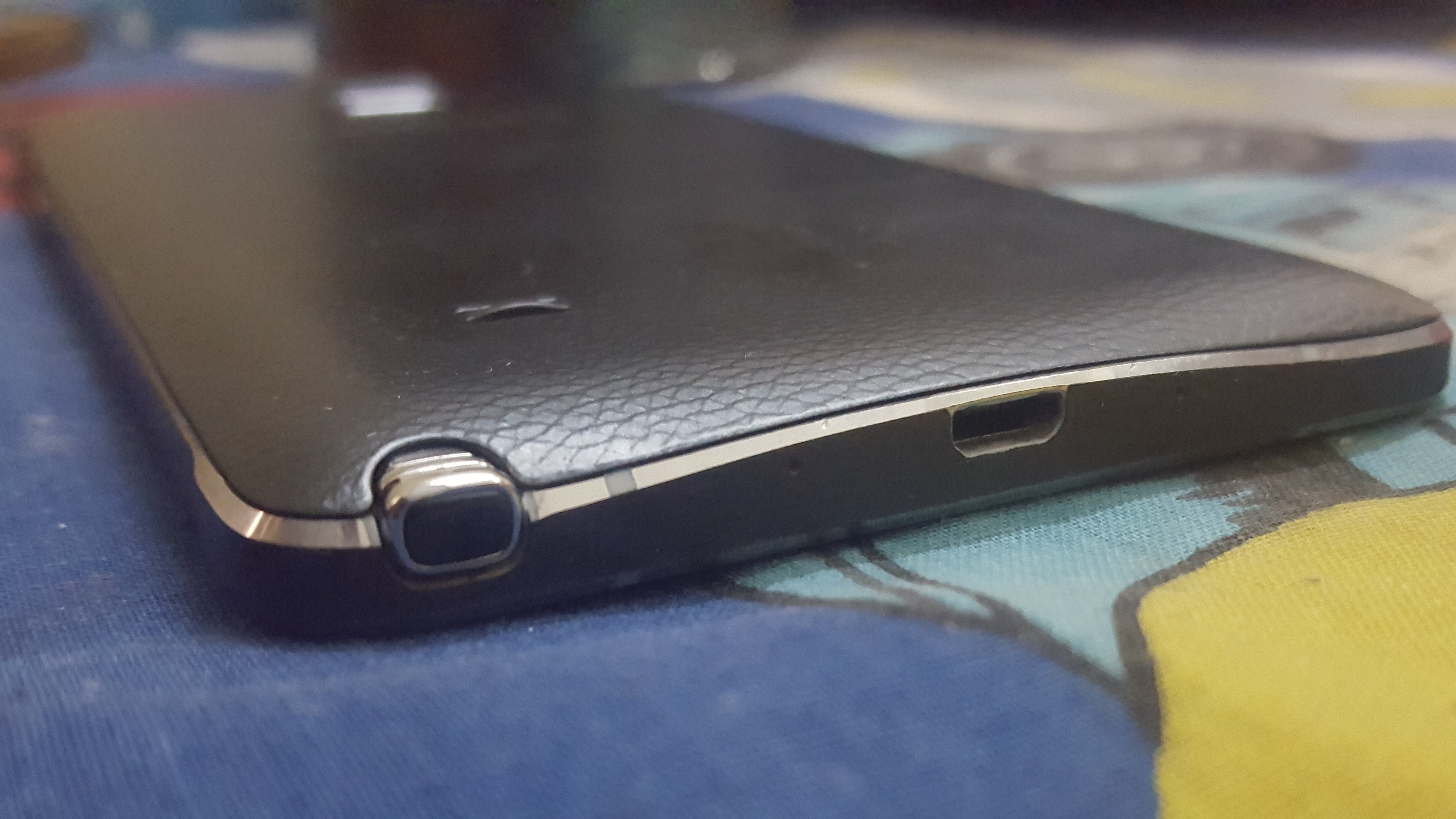 A photo showing the bottom view of Samsung Galaxy Note 4.